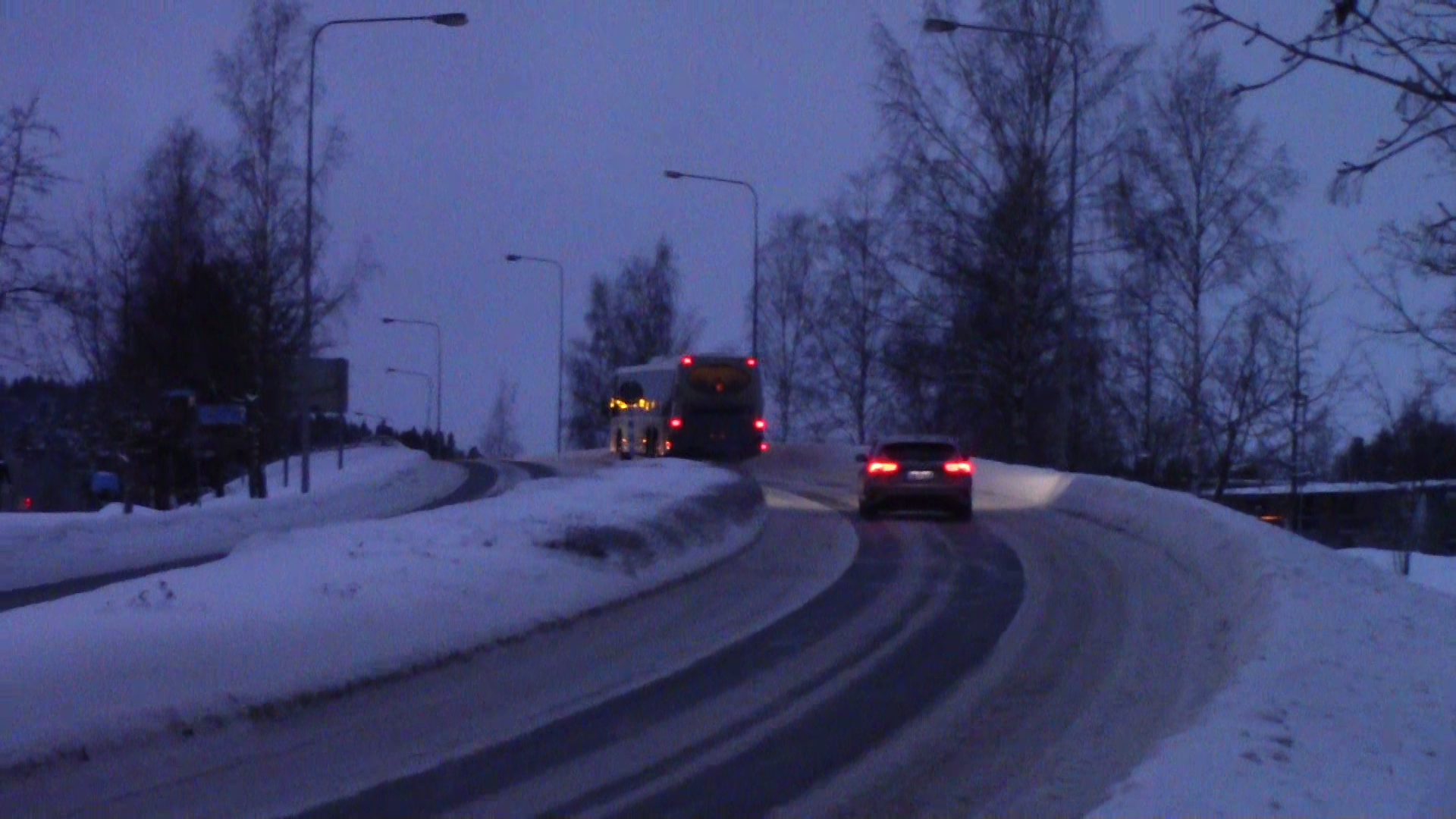 Finnish connecting road 3022 at Partola suburb in Pirkkala. The road runs from Partola to Lempäälä's Nurmi.